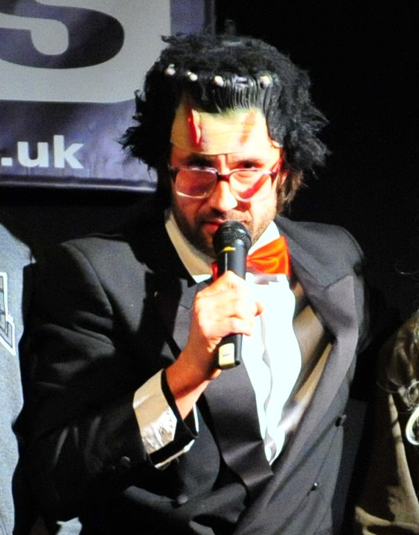 David Earl (in character as Brian Gittins, centre) at Southampton Talking Heads club "You Jest" comedy evening